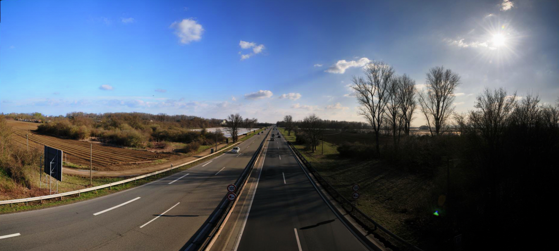 it's a ditch in the countryside, maybe a former moat